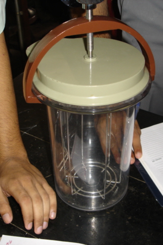 Gas-pak is a method used in production of an anaerobic environment. It is used to culture bacteria which die or fail to grow in presence of oxygen.